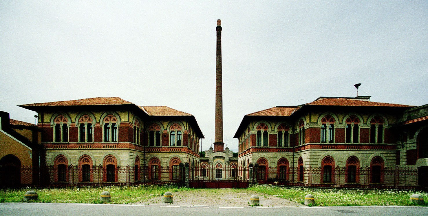 Crespi d’Adda (Bergamo) Italy, offices and hall door built in 1924